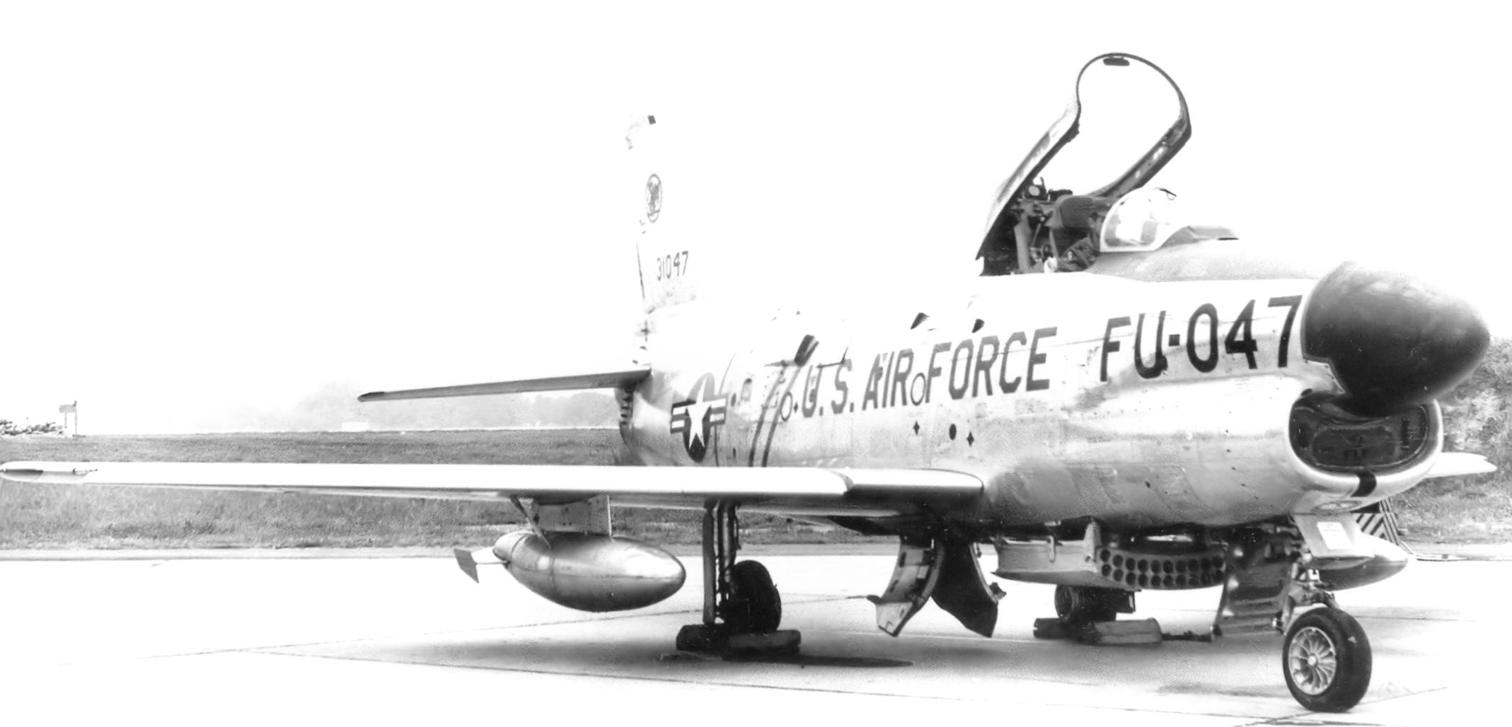 444th Fighter-Interceptor Squadron North American F-86L-60-NA Sabre 53-1047 35th Air Division, Charleston AFB, South Carolina, July 1957